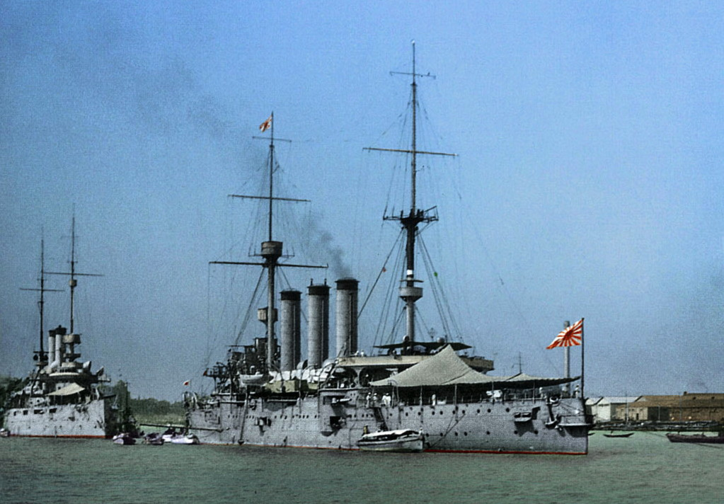 Colorized and cropped version of File:Japanese cruiser Izumo in Shanghai 2.jpg